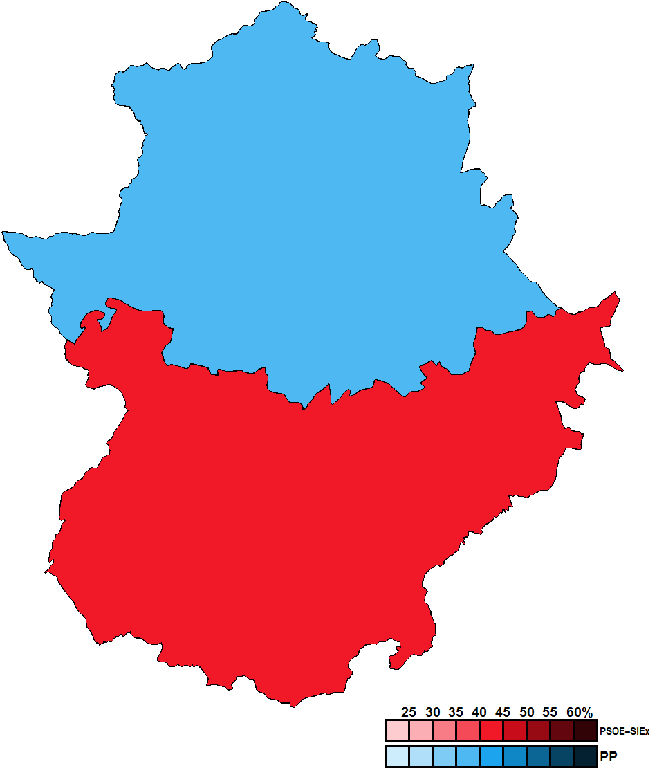 Provincial results for the 2015 Extremaduran regional election.